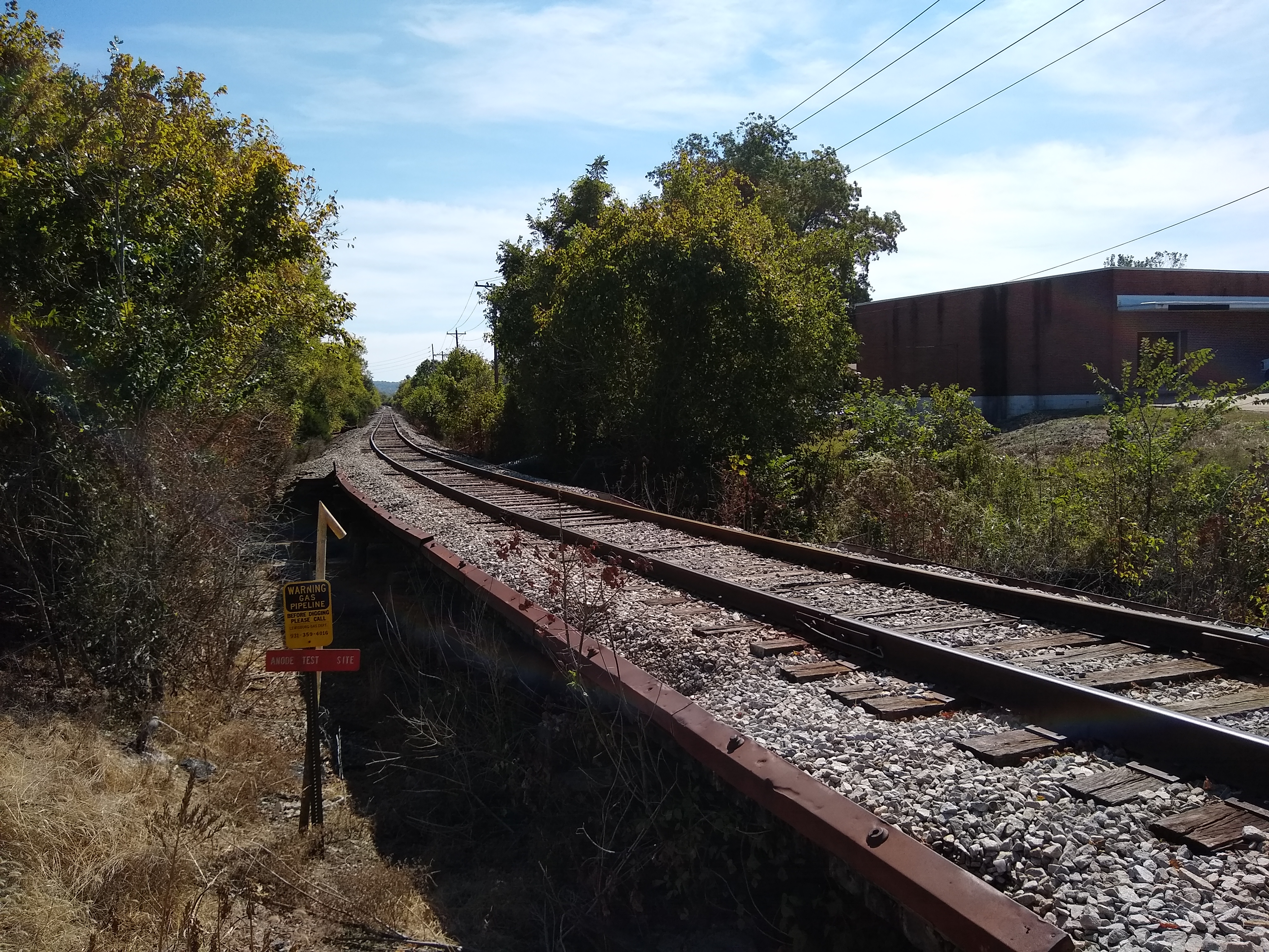 The Duck River Valley Narrow Gauge Railway was a passenger railway in Middle Tennessee, opened in 1877. It was dismantled in the 1960s. Only a short spur in Lewisburg remains in operation to serve factories.